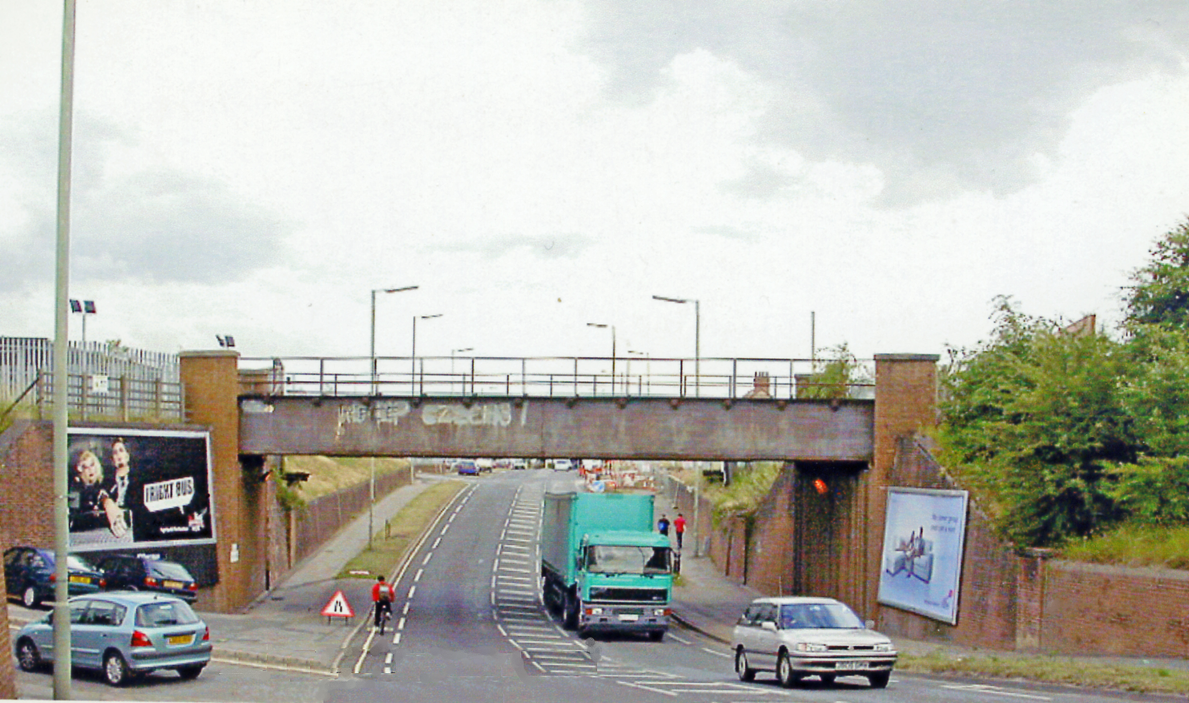 Site of Morris Cowley station, 2004. View SW on B280 Watlington Road under the bridge carrying the ex-GWR (Oxford) Kennington Junction (to right) - (to left) Thame - Princes Risborough line. The station was to the right, closed when the passenger service ceased 7/1/63, to goods from Thame 1/5/67, Princes Risborough 17/4/91; line is still open from Kennington Junction for traffic for BMW-Morris factory.